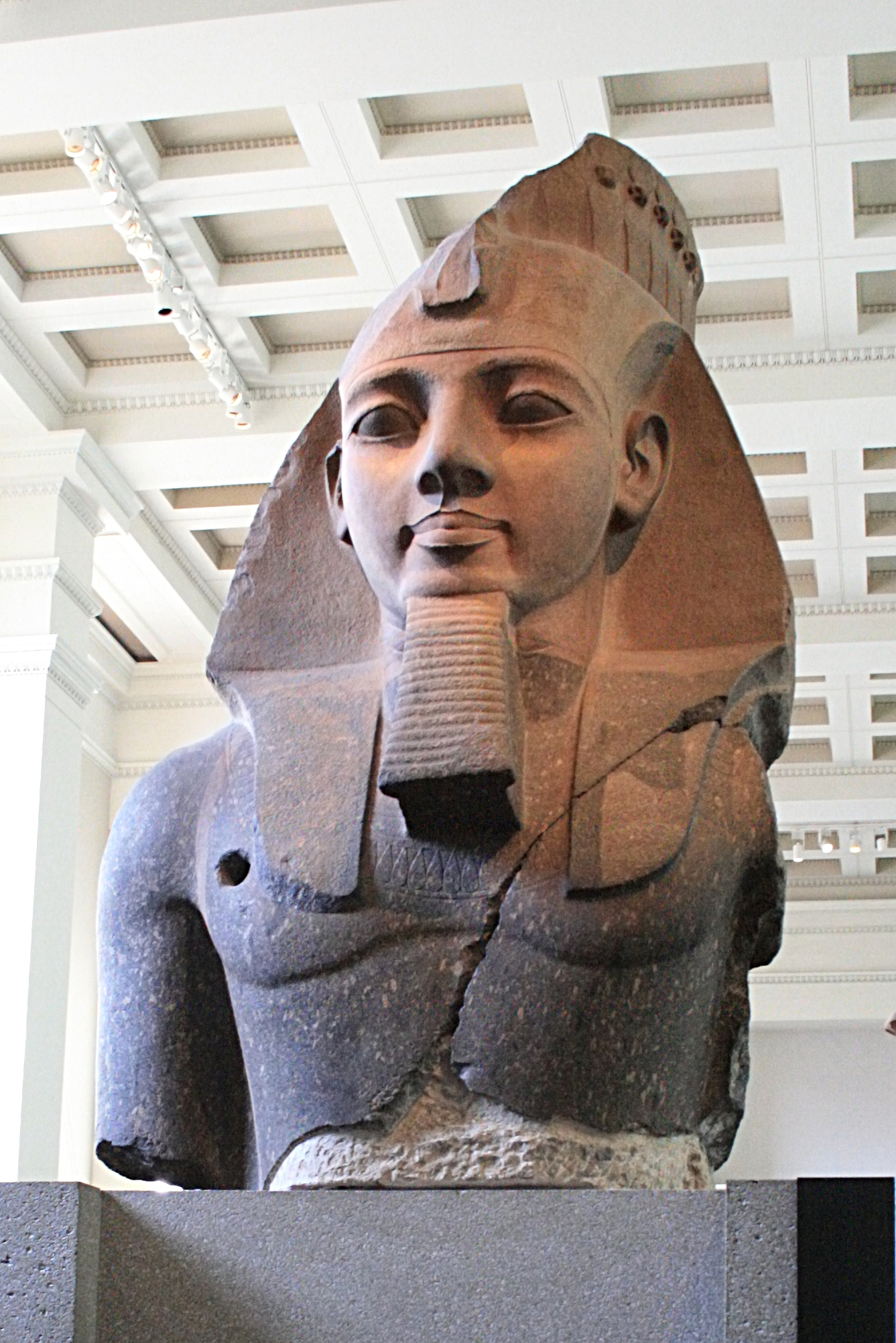 Statue of Ramesses II, the «Younger Memnon». From the Ramesseum, Thebes, Egypt, 19th Dynasty, about 1250 BC. British Museum, London.